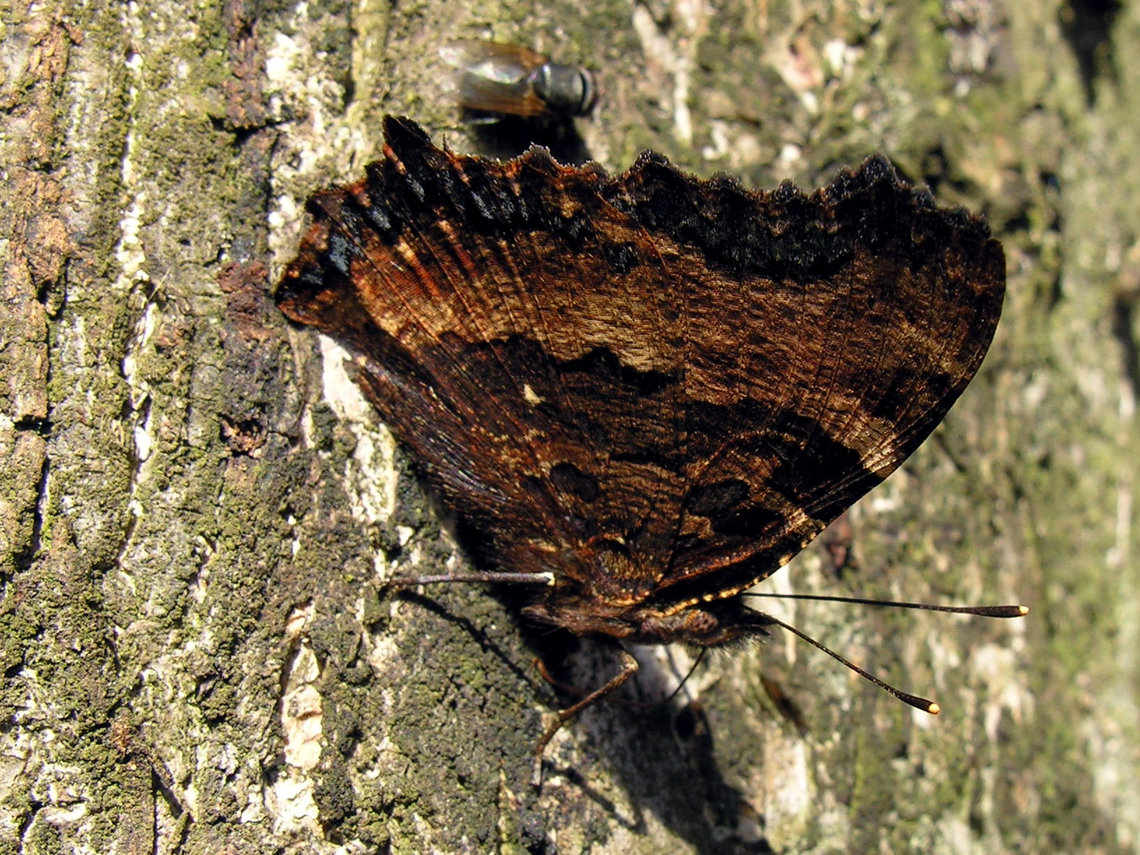 Nymphalis polychloros. Fam. Nymphalidae